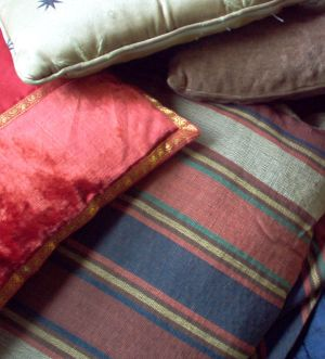 Photo of a bunch of cushions that I took myself.